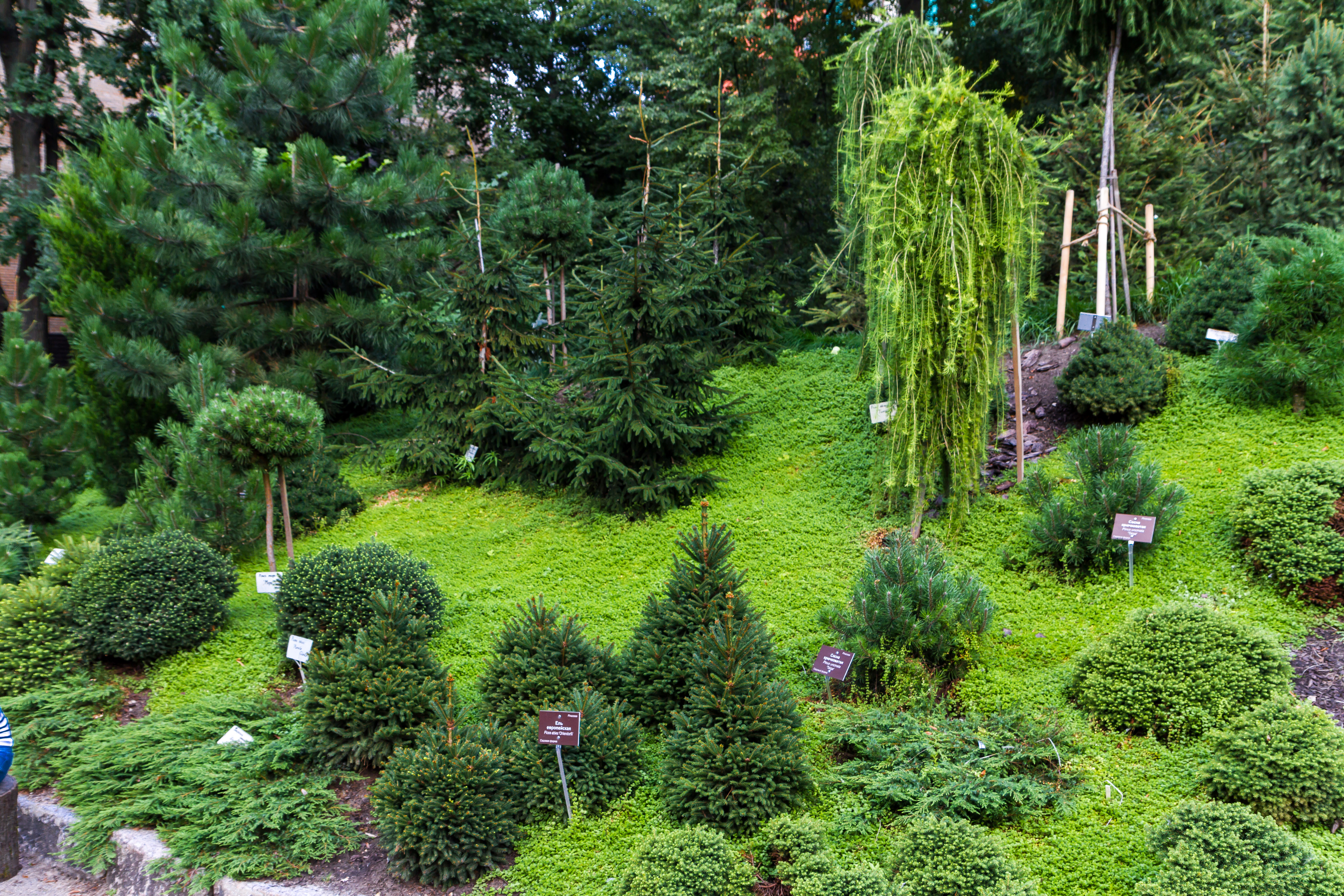 Meshchansky District, Moscow, Russia